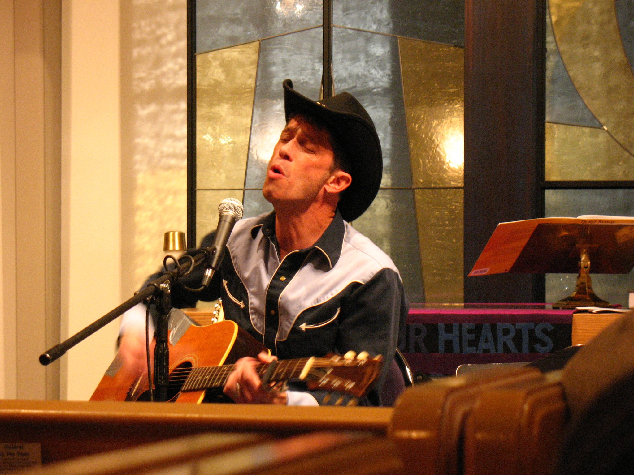 Bill Mallonee (IMG_2570.JPG).